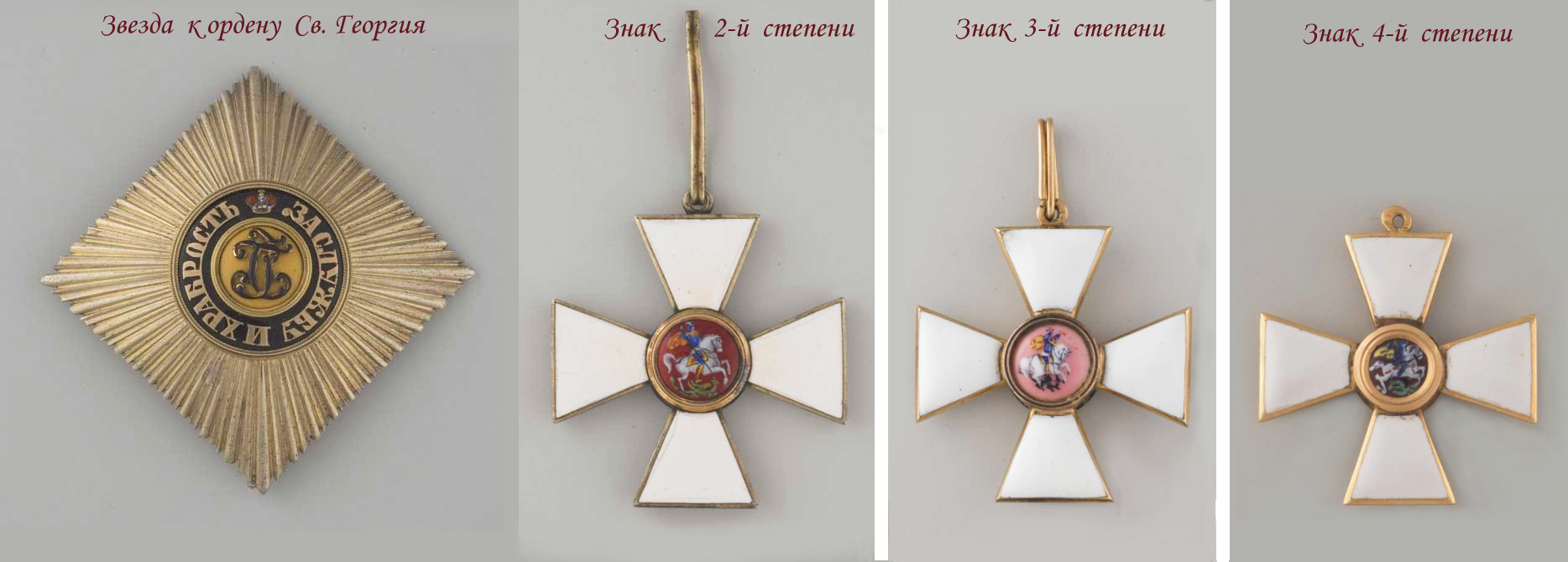 Order of St. George